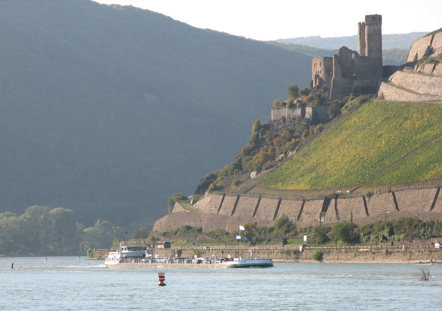 ruin of castle Ehrenfels near rhine river